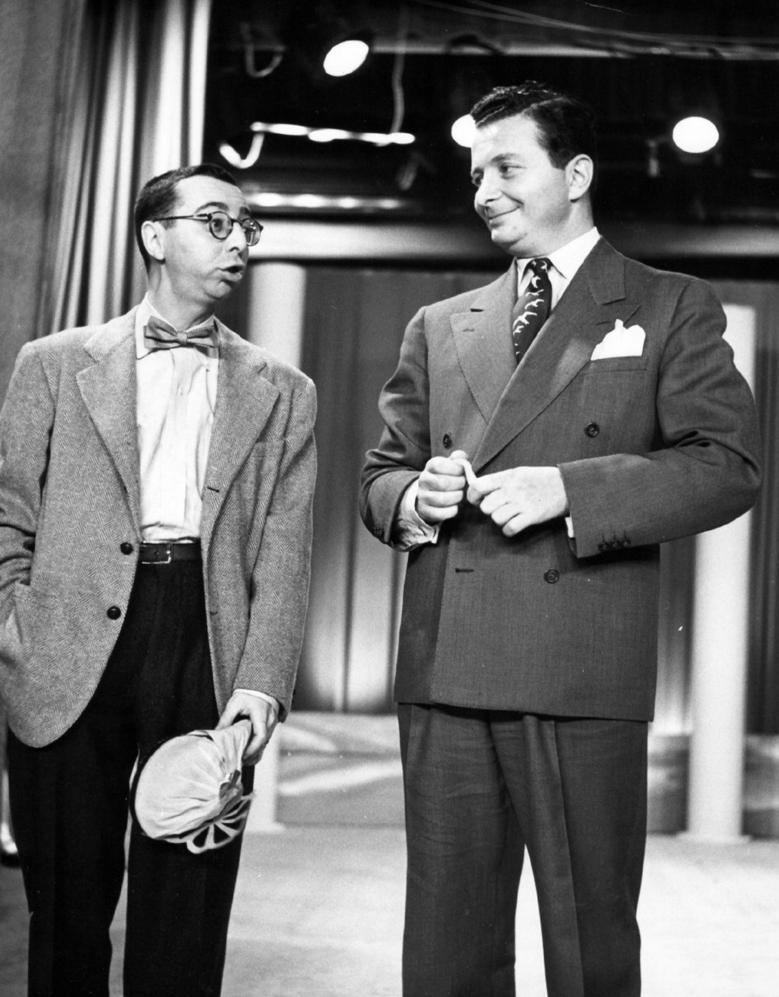 Photo of comedians Arnold Stang (left) and Henry Morgan on the set of the television program The Great Talent Hunt.